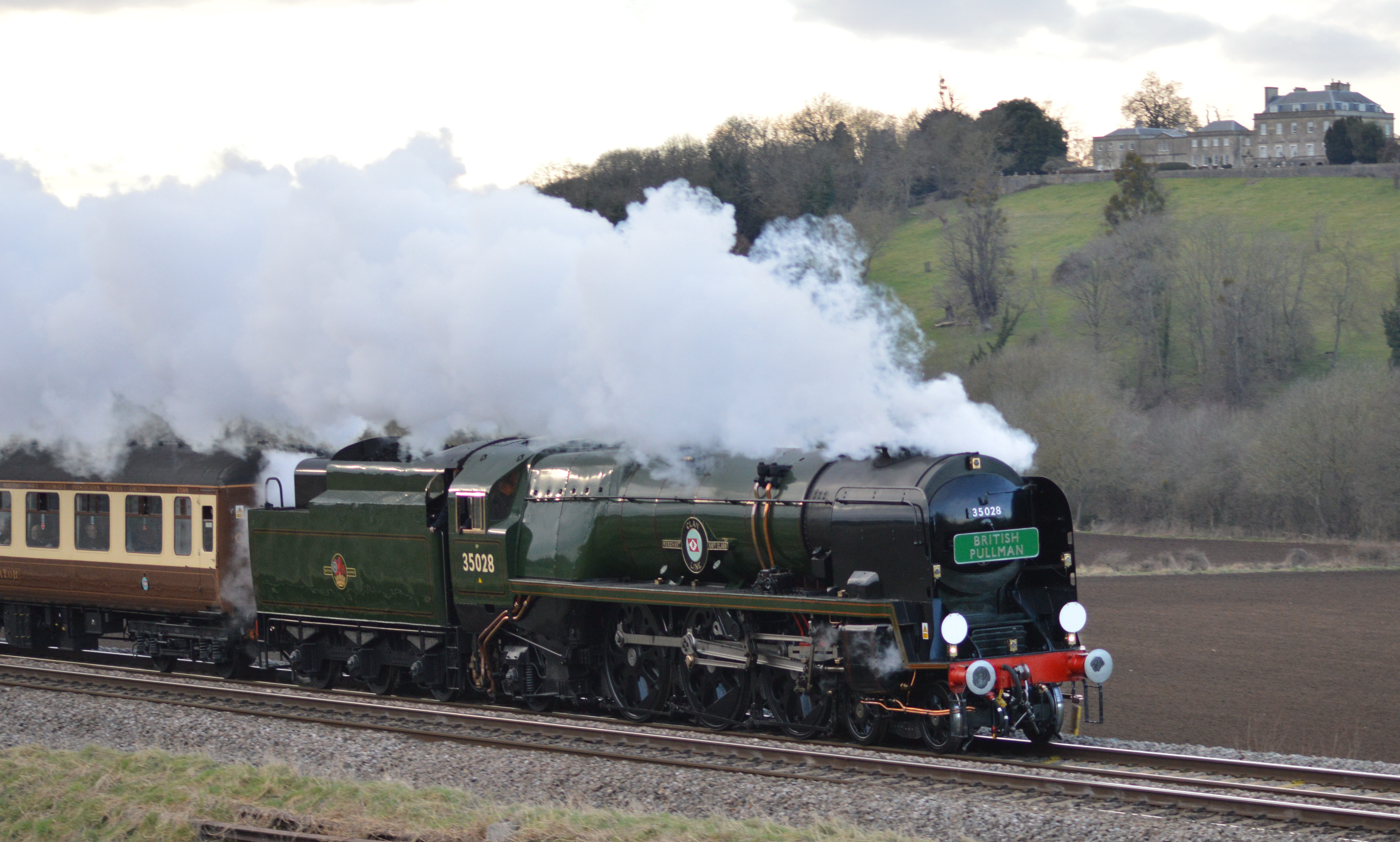 SR Merchant Navy class 35028 Clan Line, west of Bath, on the former-GWR Bristol-Paddington mainline. The train was the return leg of the regular VSOE Victoria-Newbury-Bath-Bristol 'British Pullman'.[1] Kelston Park house can be seen top-right.